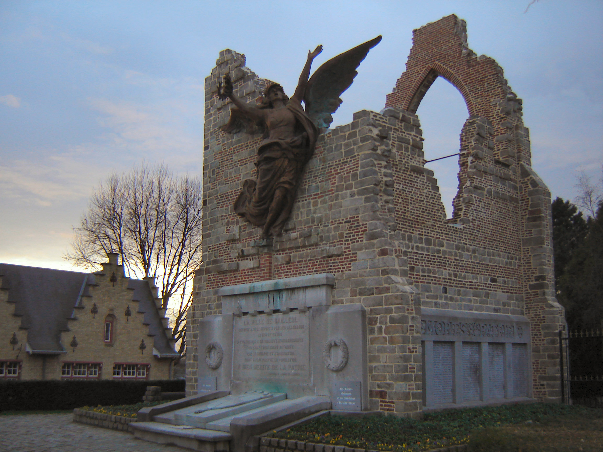 War monument on the ruins of the Saint Amand Church in Bailleul, Nord, France.